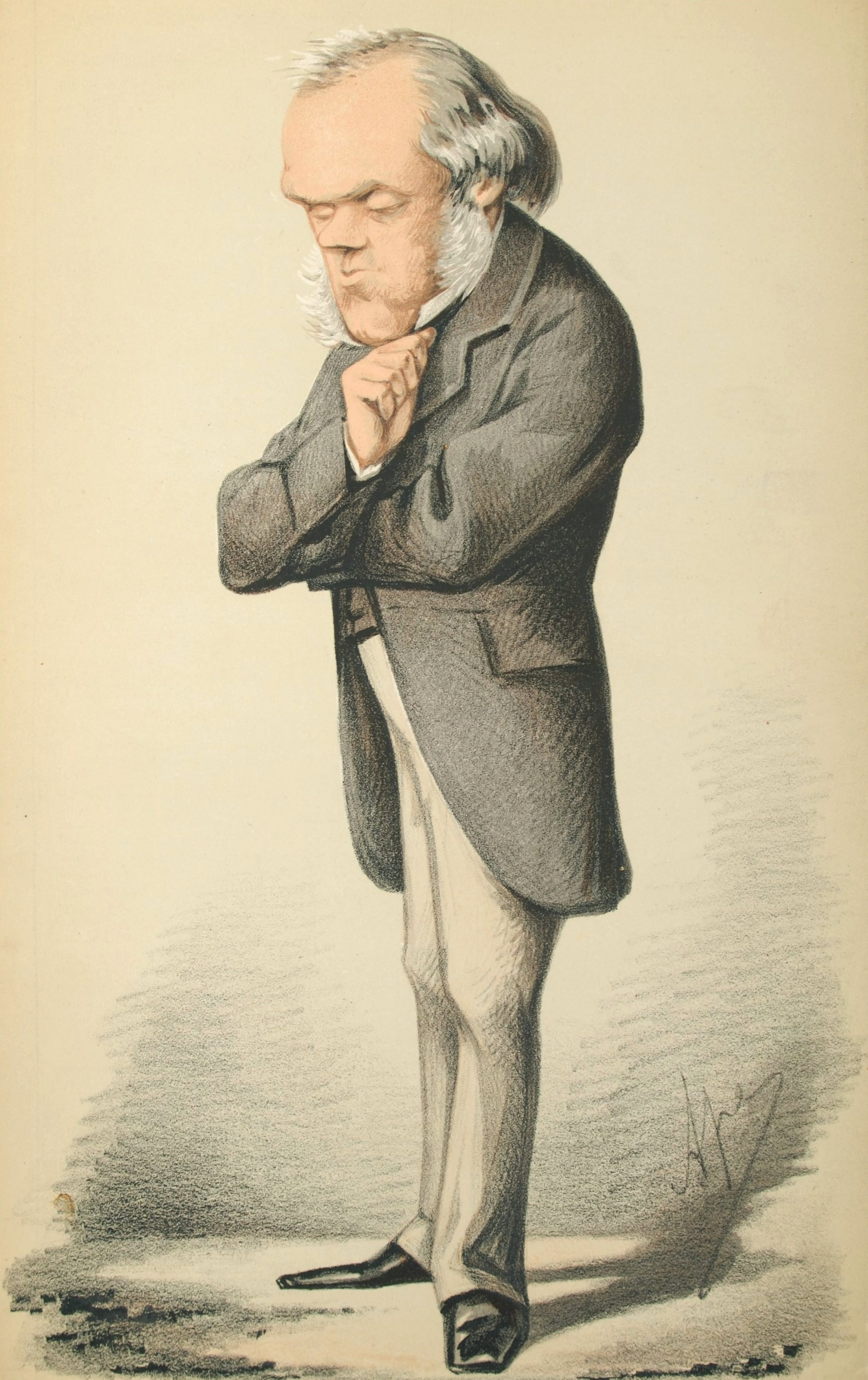 Statesmen No.29: Caricature of The Rt Hon Henry Bruce. Caption reads: "He has gained credit by converting himself to the Ballot; he would gain greater credit by converting himself into an ex-secretary of State for the Home Department." |Source=Vanity Fair, 21 August 1869 Digitised version from : CCNY Libraries on Flickr Note: The City College of New York libraries claim copyright to the image but per Commons policy (and US case law) a faithful reproduction of a 2D image grants no new copyright.